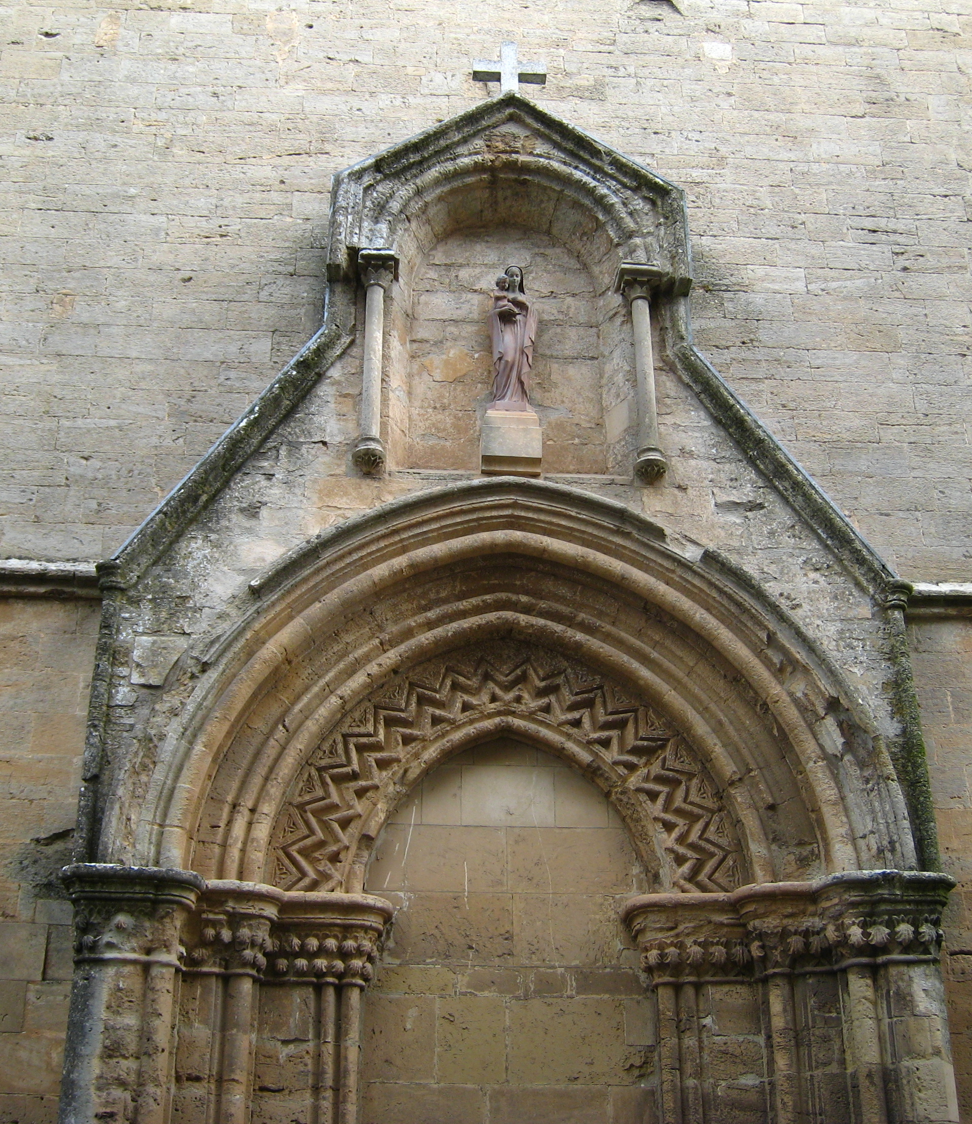 Enna cathedral